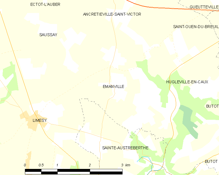 Map of French municipality Émanville